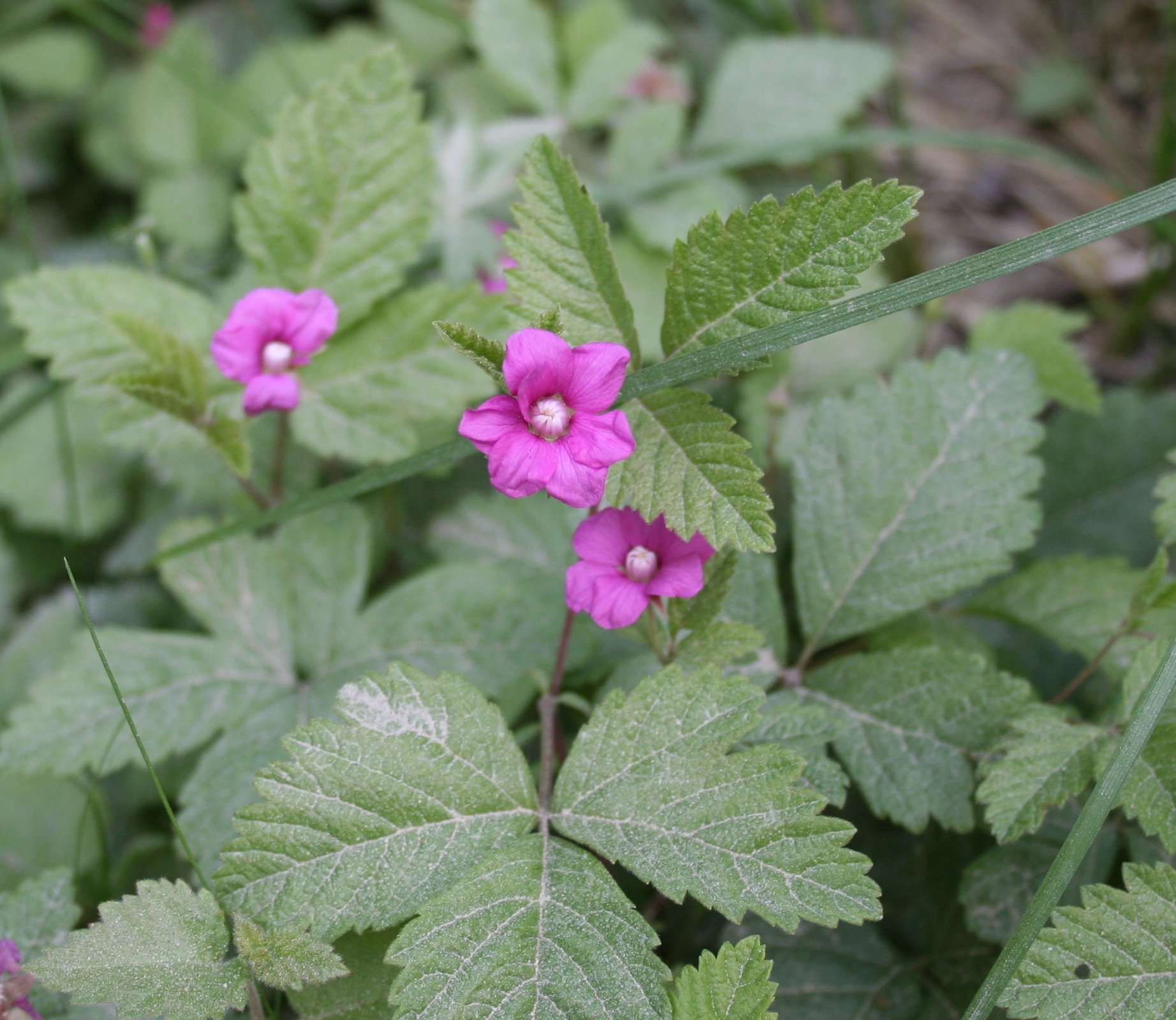 Rubus arcticus